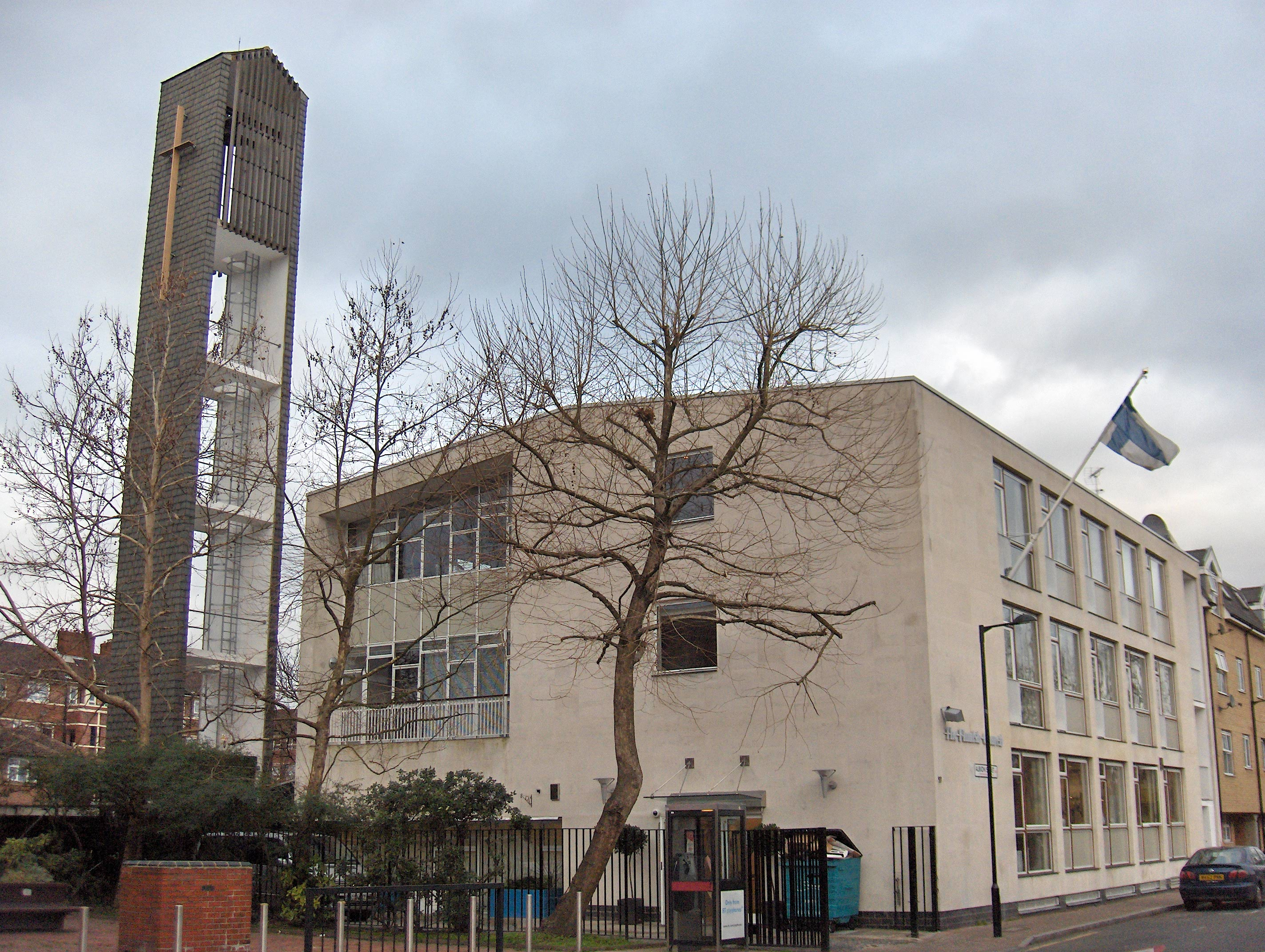 Finnish Church, Albion Street, Rotherhithe, London. Architect Cyrill Mardall-Sjöström, completed 1958.